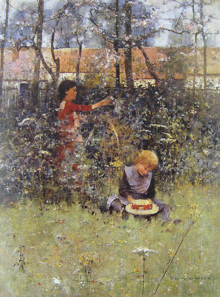 Painting by Glasgow Boy William Kennedy